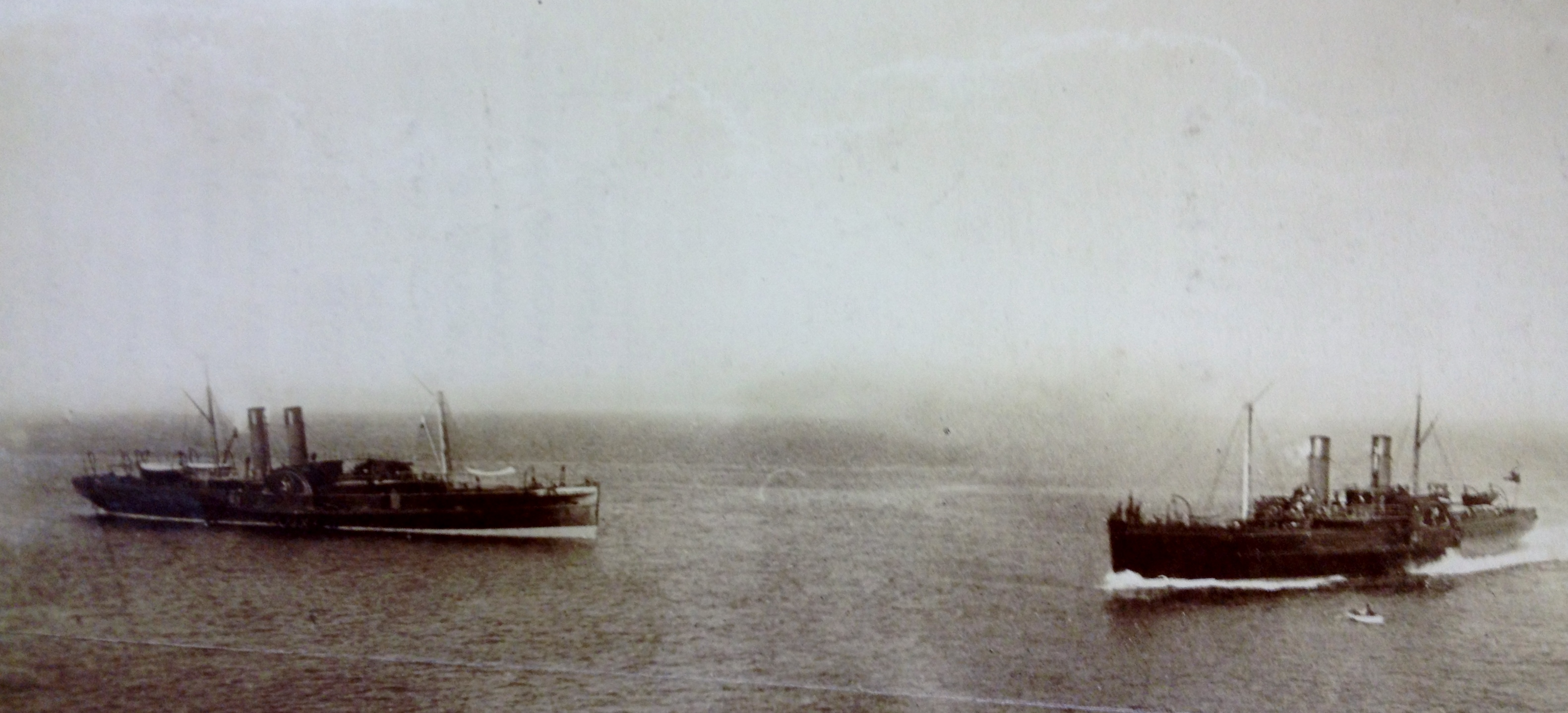 Isle of Man Steam Packet Company paddle steamers Tynwald and Douglas.